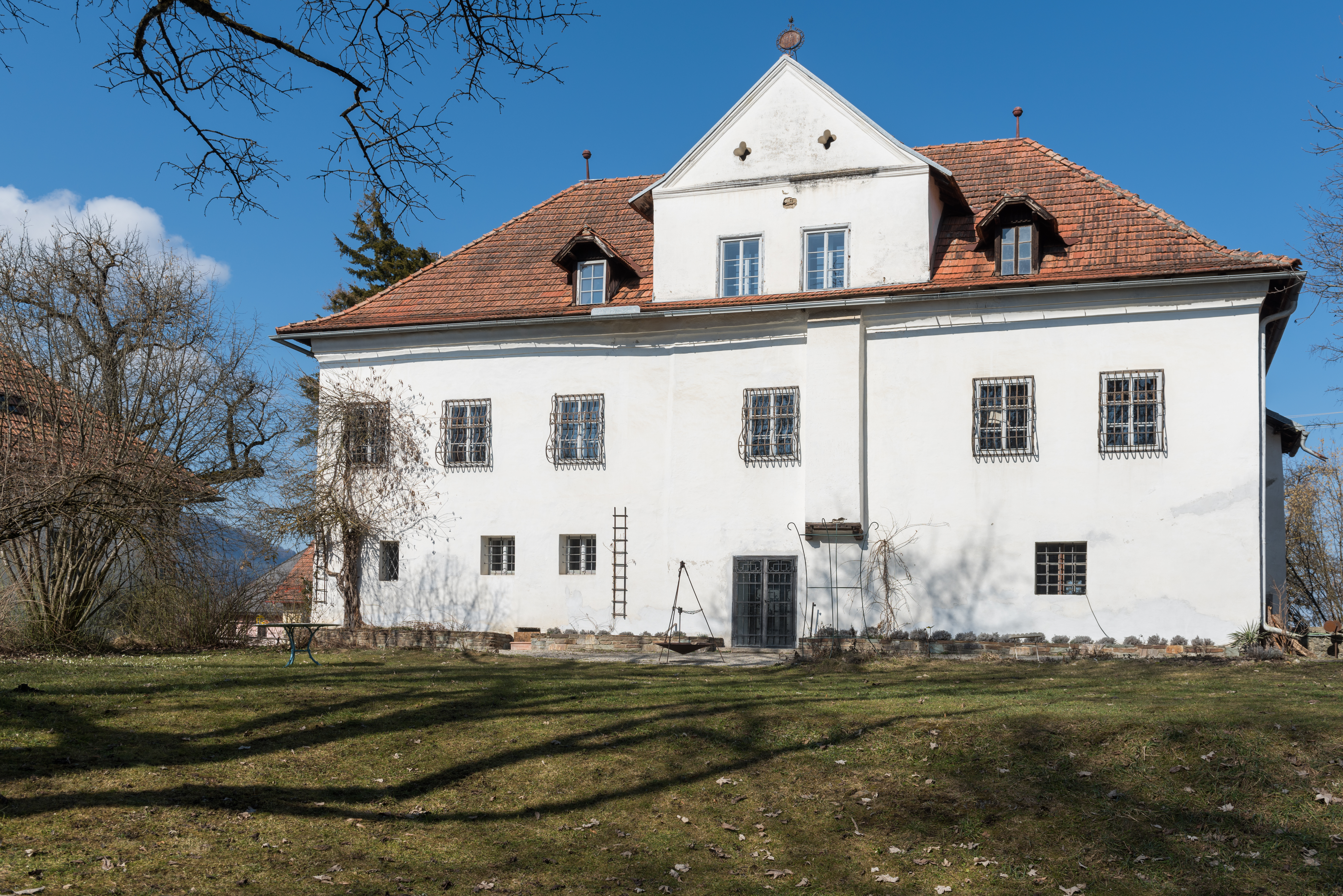 Manor Tonhof on Schnerichweg #2, market town Maria Saal, district Klagenfurt Land, Carinthia, Austria, EU